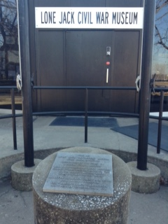 Lone Jack Battlefield Museum, Lone Jack, Missouri